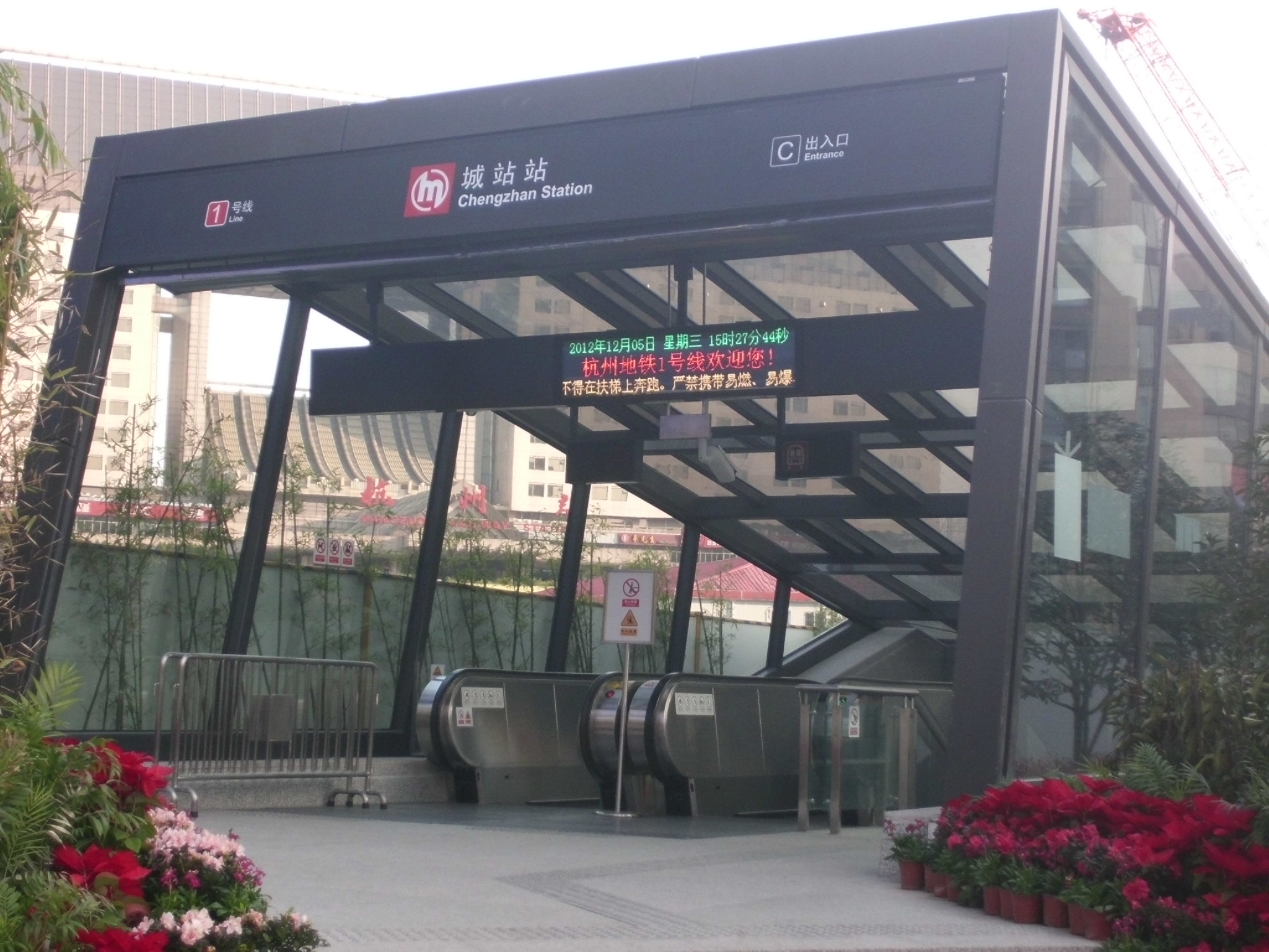 Chengzhan Station